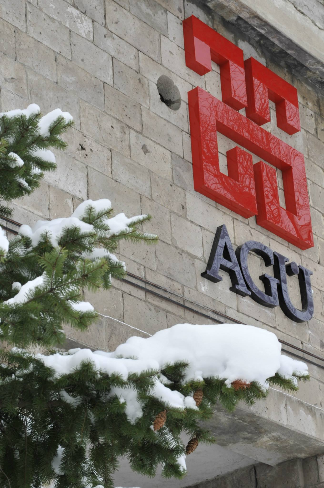 AGU in Winter